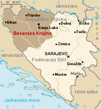 Location of Bosnian Krajina